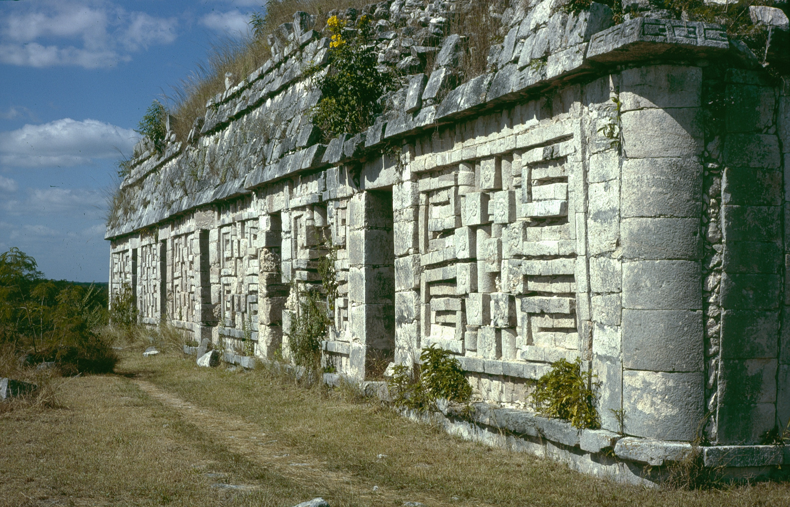 Chichen Itza,Yucatan, Mexico: Monjas (second storey, south side)